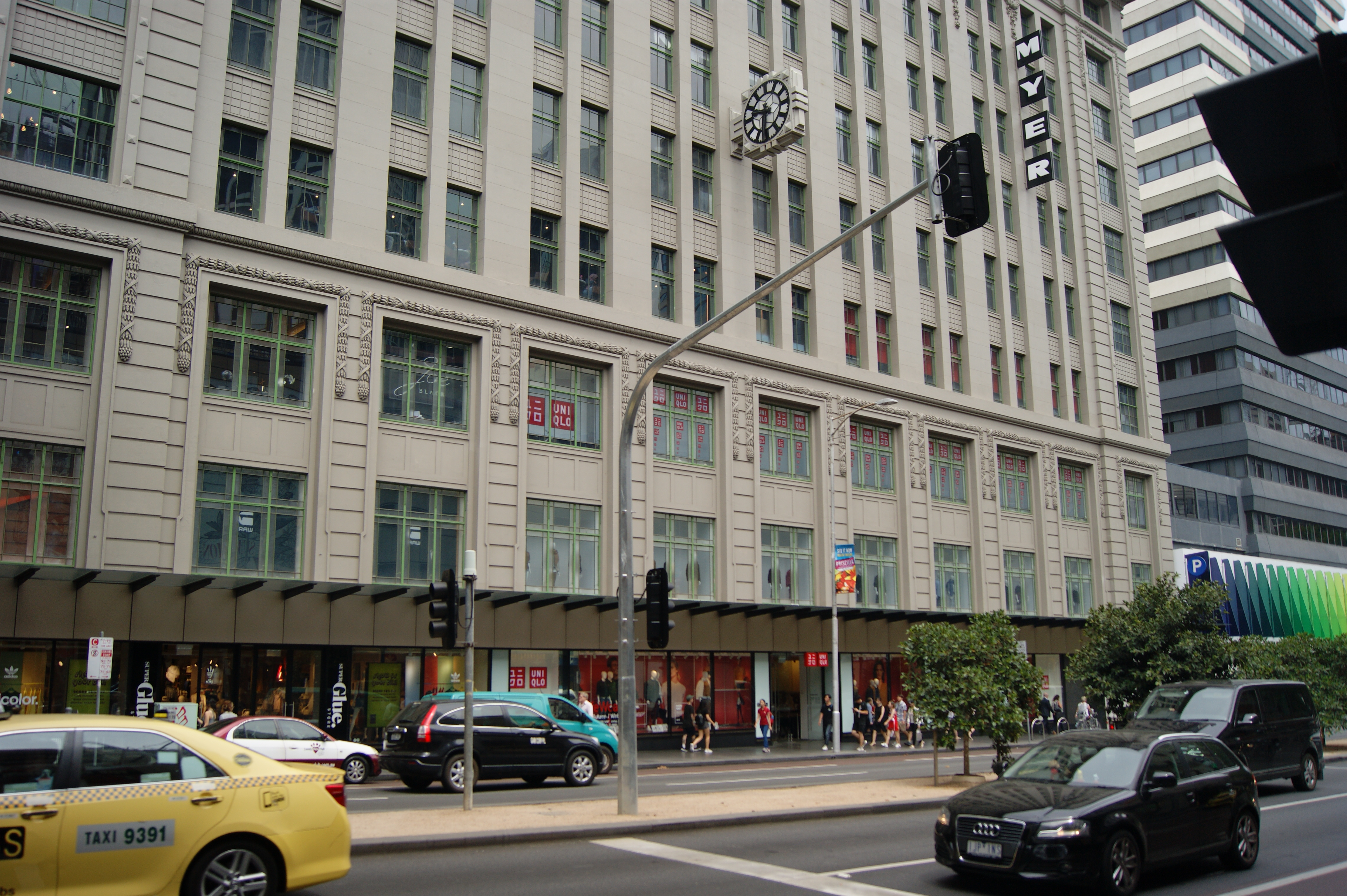 Myer Emporium on Lonsdale Street in the Melbourne city centre.